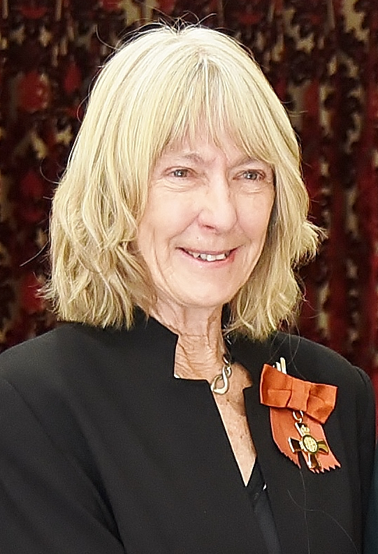 Janet Holmes, after her investiture as ONZM, for services to linguistics, at Government House, Wellington, on 20 November 2016.